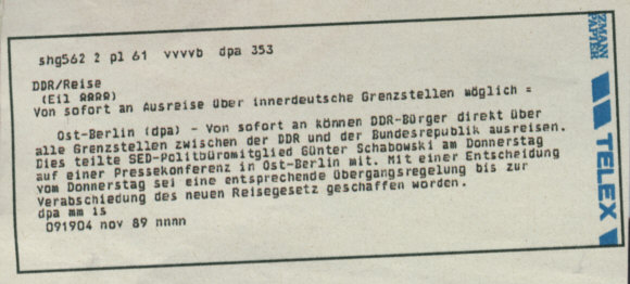 news-ticker "Deutsche Presse-Agentur", Nov. 9th 1989: Berlin Wall is open.